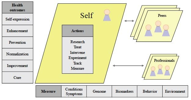 Copy of Figure 1 describing the health care model of Health 2.0